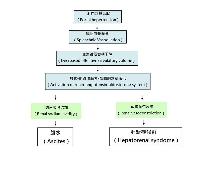 Summary of the pathophysiologic mechanisms in ascites and hepatorenal syndrome